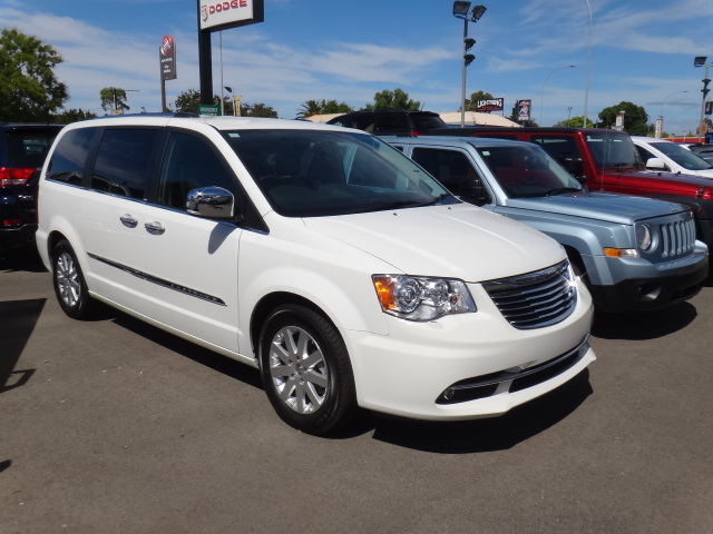 Currently one of only two Chrysler products you can buy in Australia, the other is the Chrysler 300 sedan, the Grand Voyager is not a big seller here. Now that the Fiat - Chrysler Group is starting to get their Aussie operations in order, I wonder if we'll see any new Chrysler badged products coming our way?? If anything, it'll probably be Chrysler badged Lancia products from Europe.